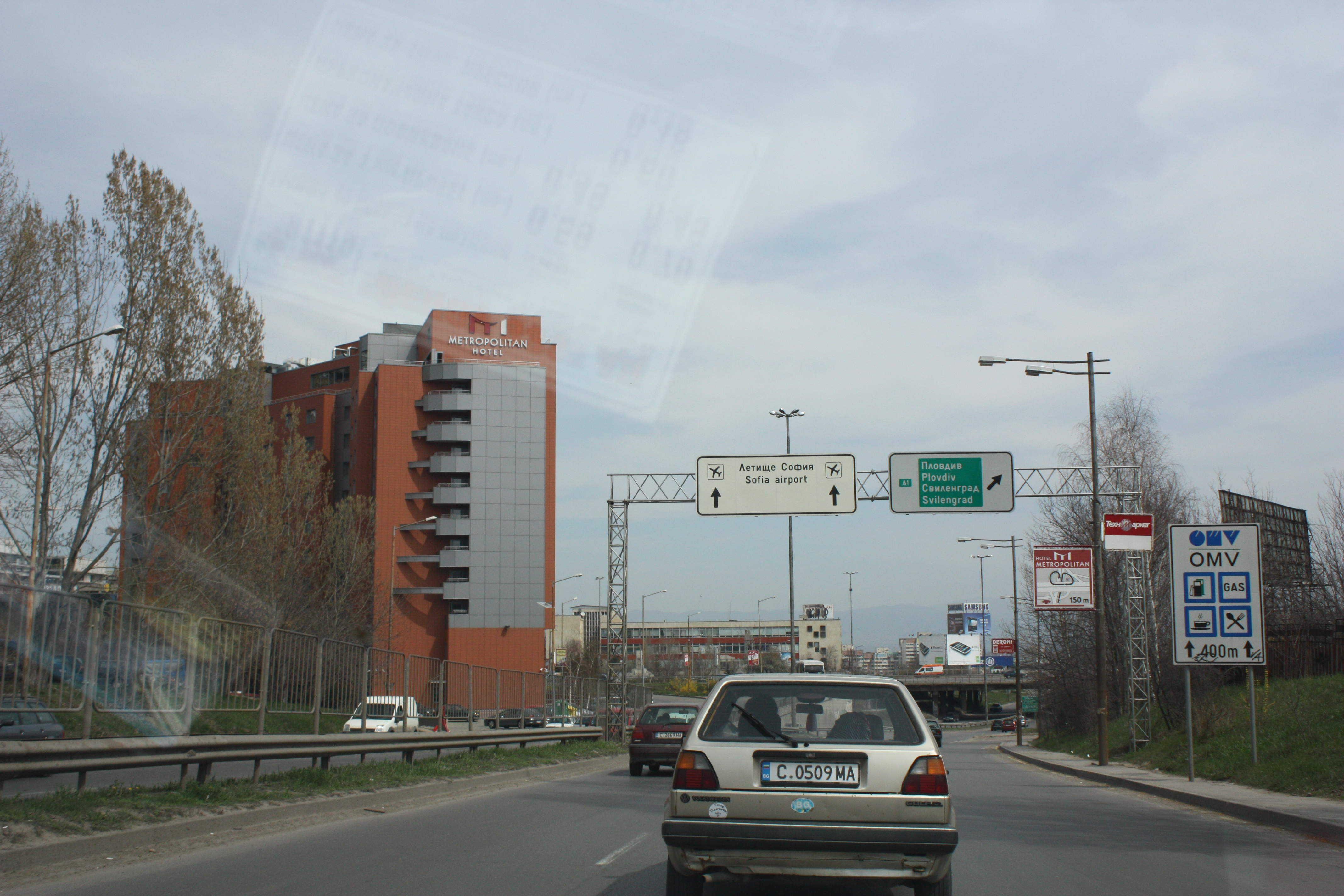 Streets in Sofia, Sofia, Bulgaria